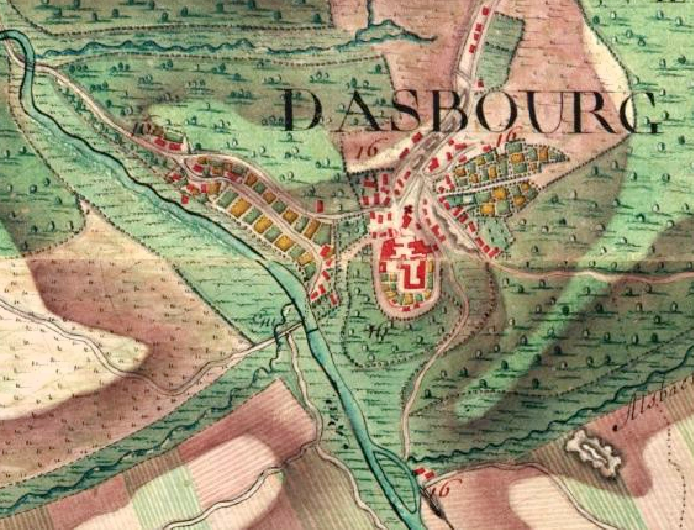 Dasburg, Germany, on the map of Ferraris.